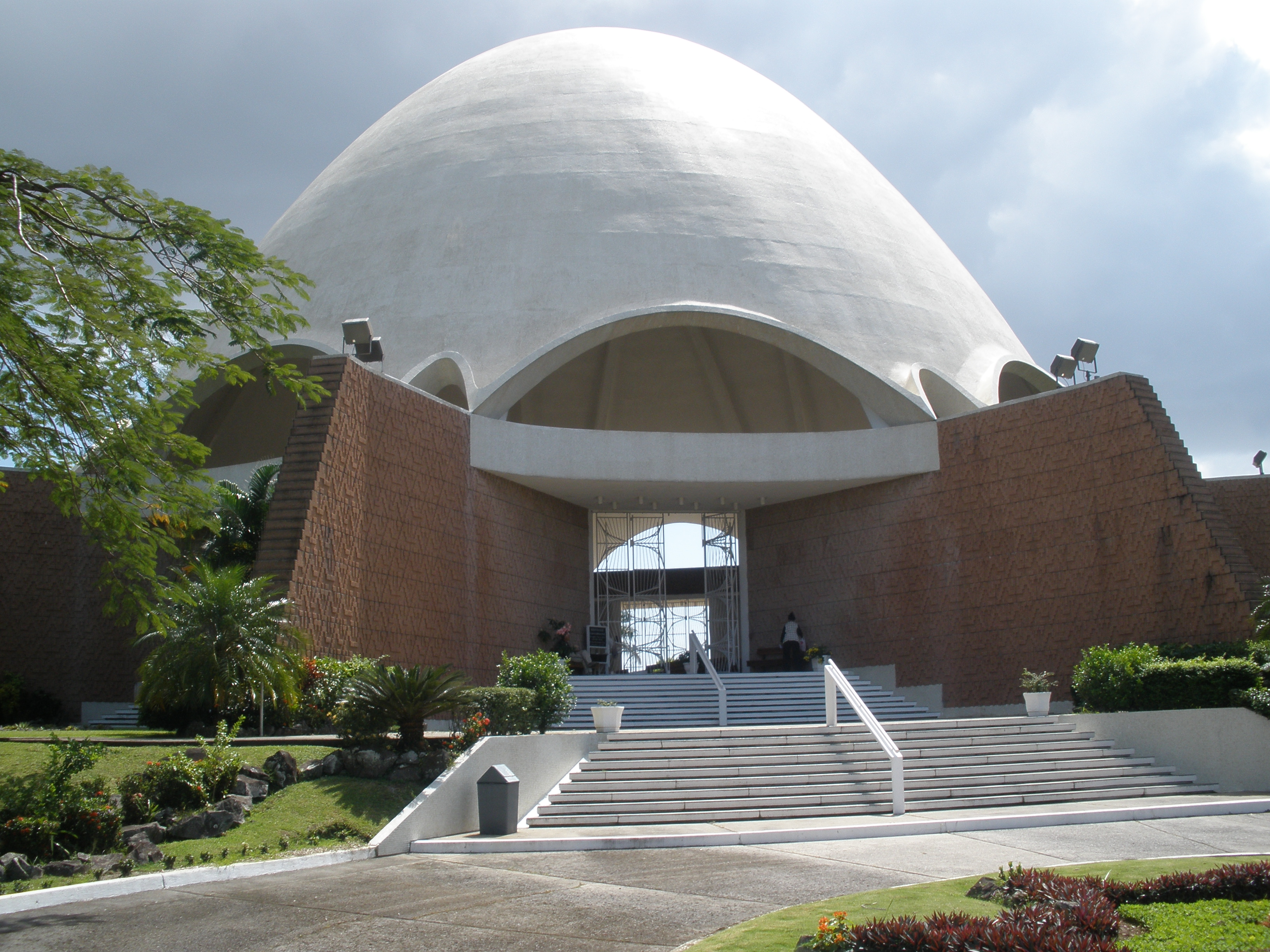 Bahá'í house of worship in Panama City, Panama. Photographed 2008-12-14.